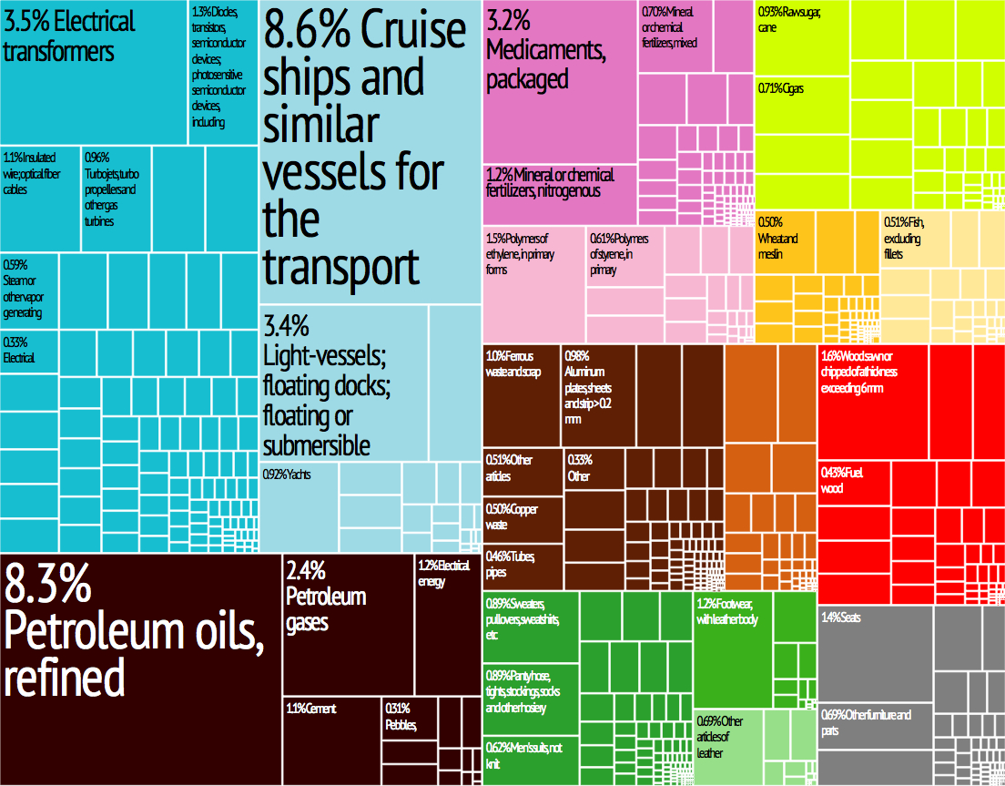 Croatia Export Treemap from MIT Harvard Economic Observatory